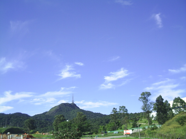 Pico do Jaraguá in São Paulo City.